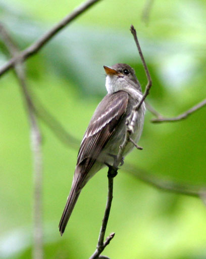 Eastern Wood Pewee, Contopus virens. Location: Durham, North Carolina, United States